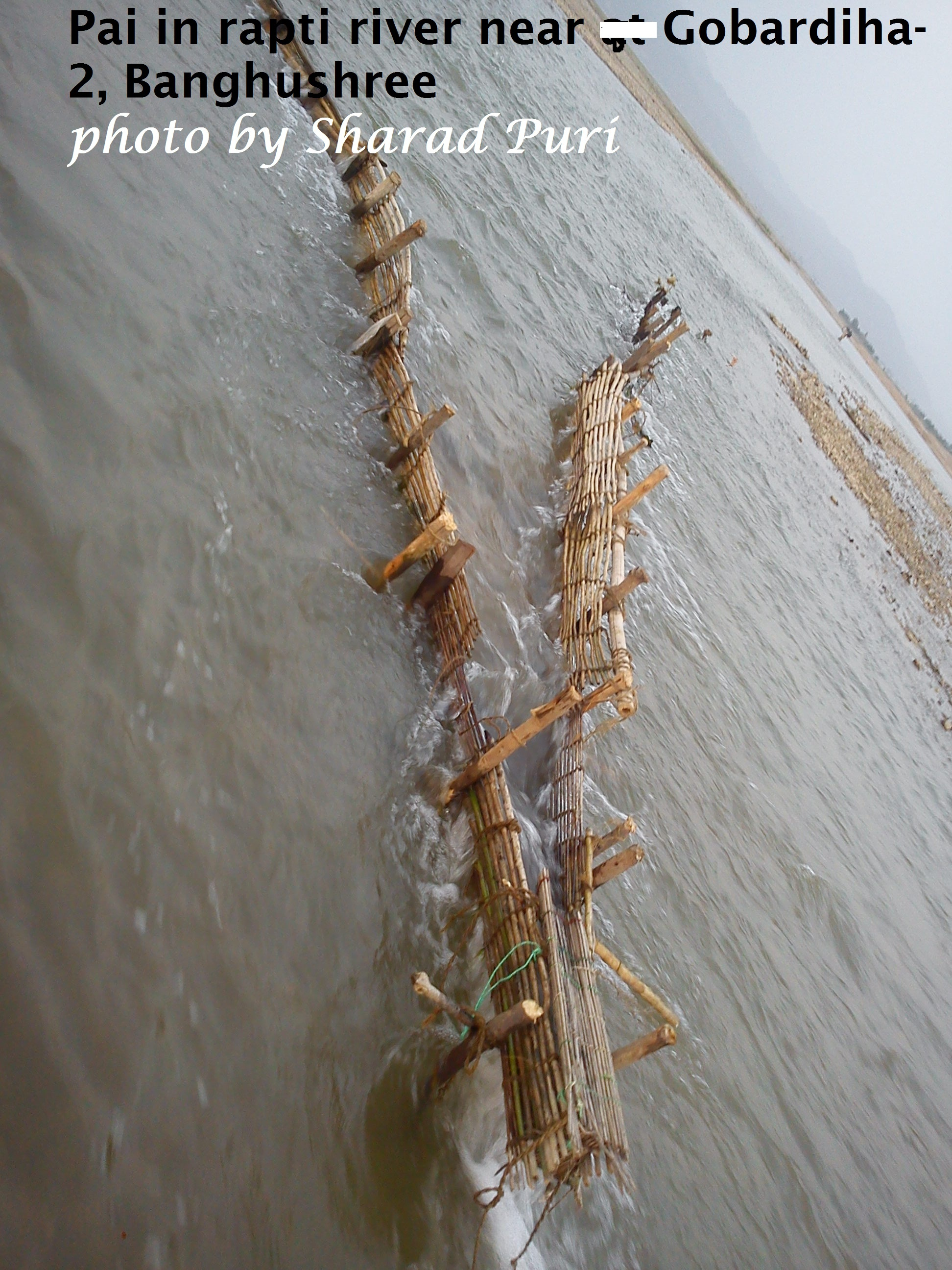 Pai was constructed by Bishnu chaudhary.